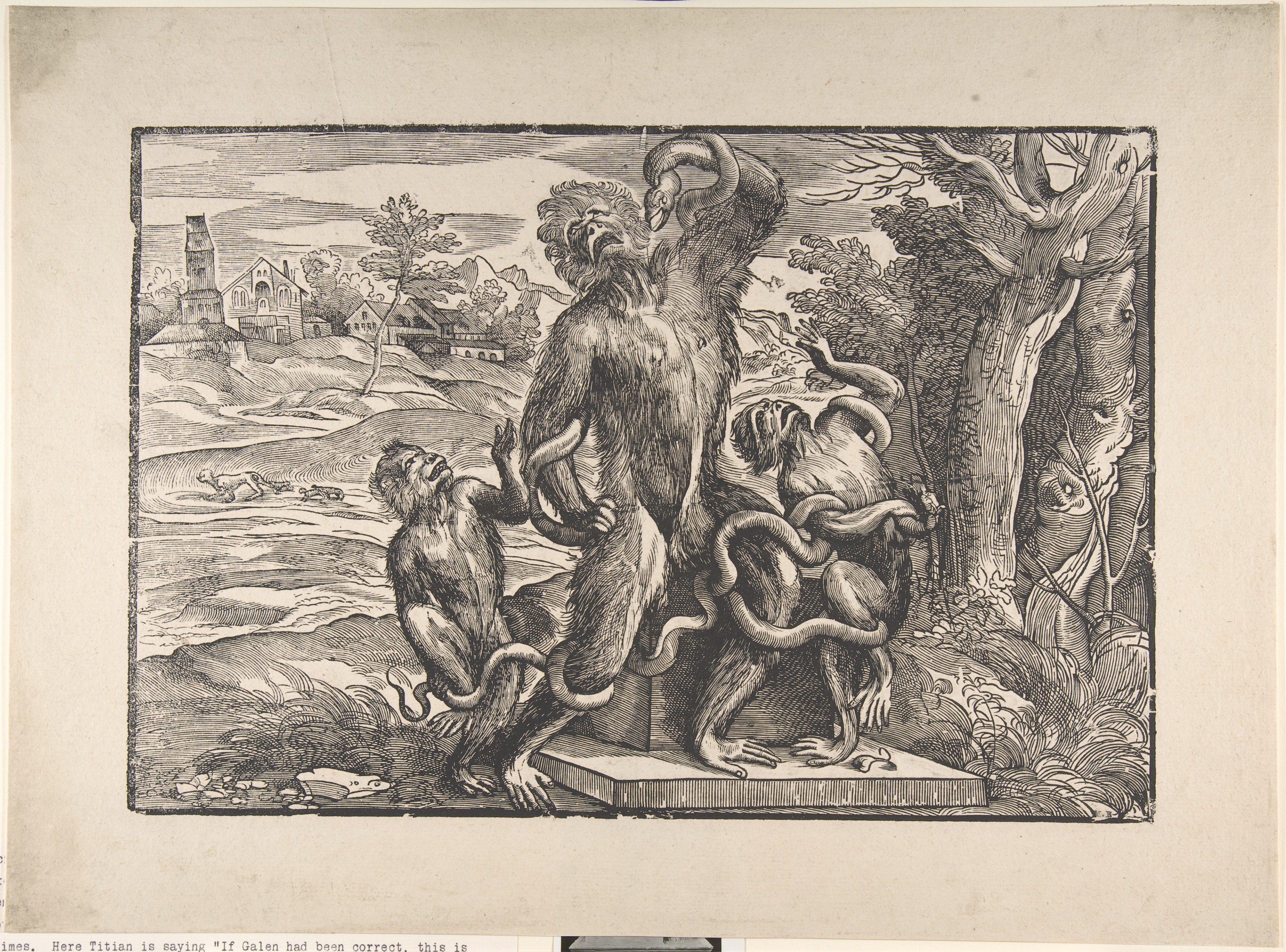 Print; Prints